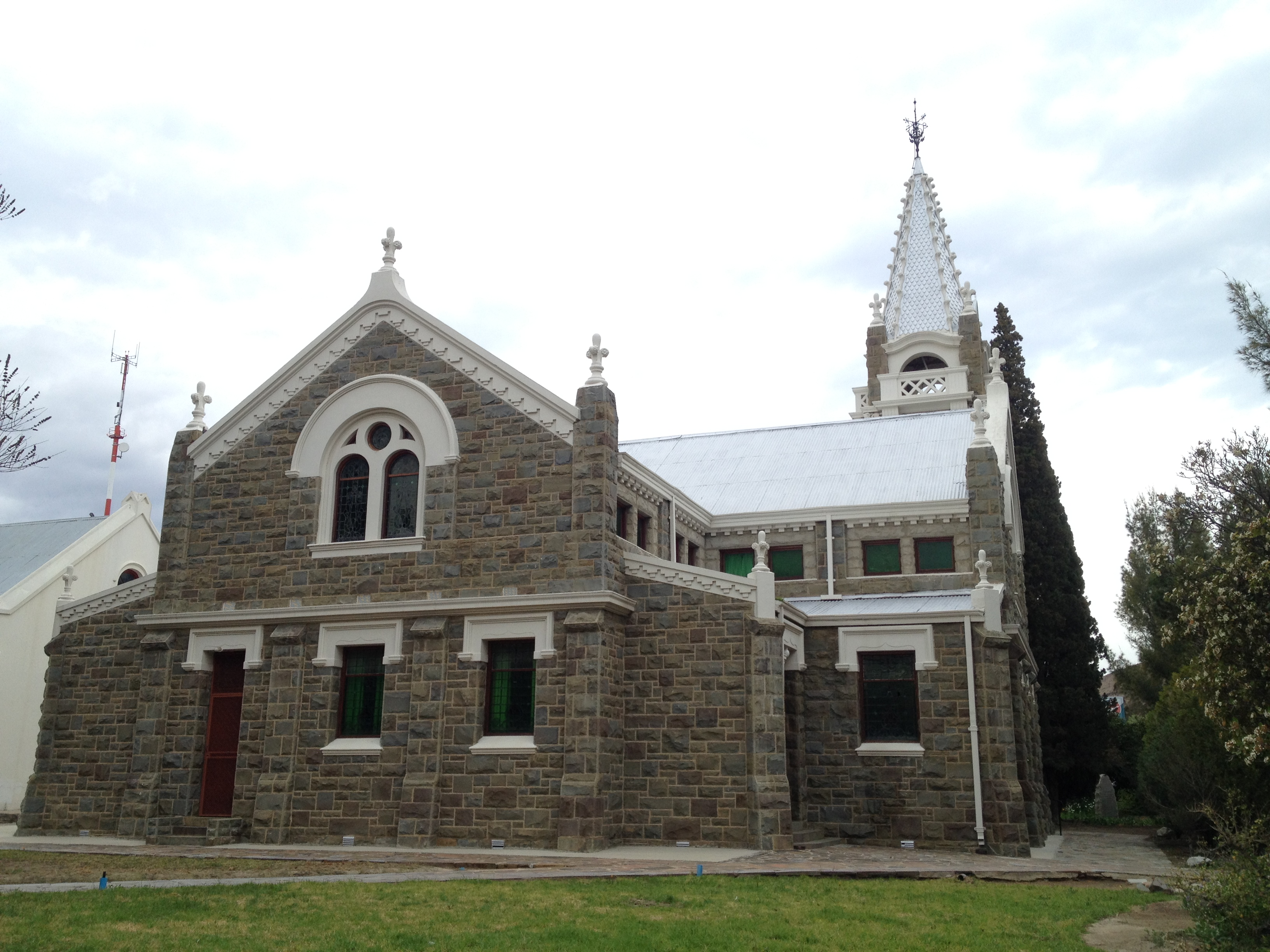 Dutch Reformed Church This media shows a South African Protected Site with SAHRA file reference 9/2/058/0003.